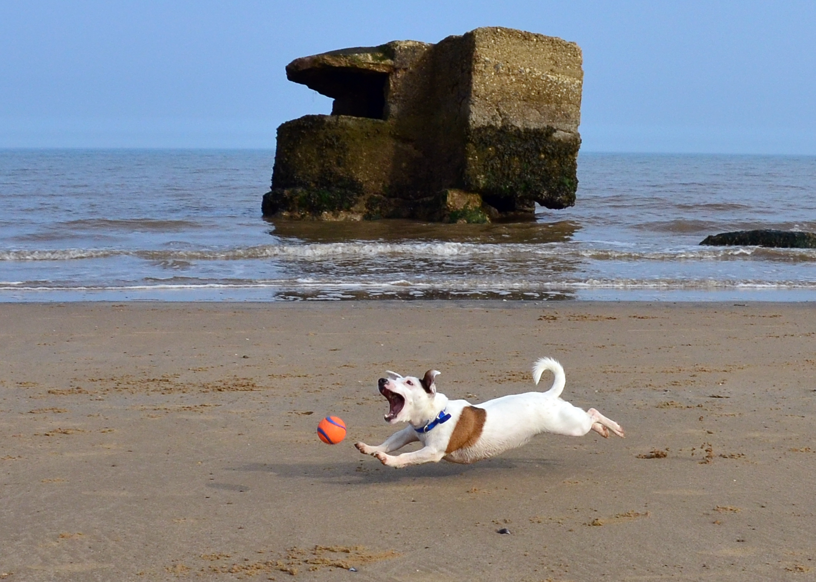 Eddi at the beach